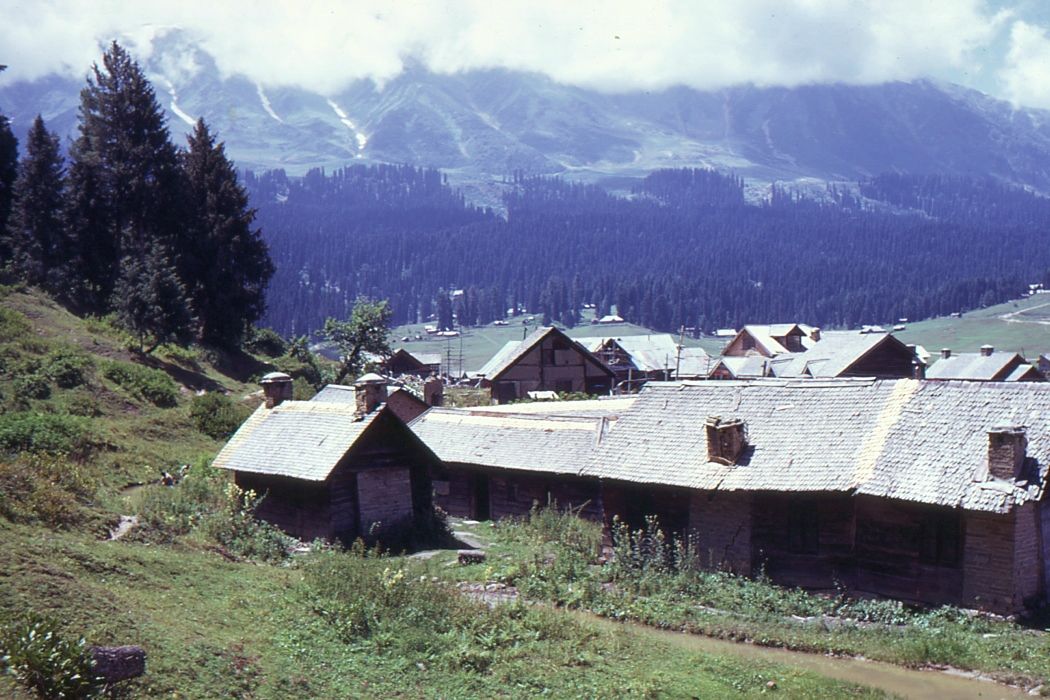 Gulmarg in August 1969